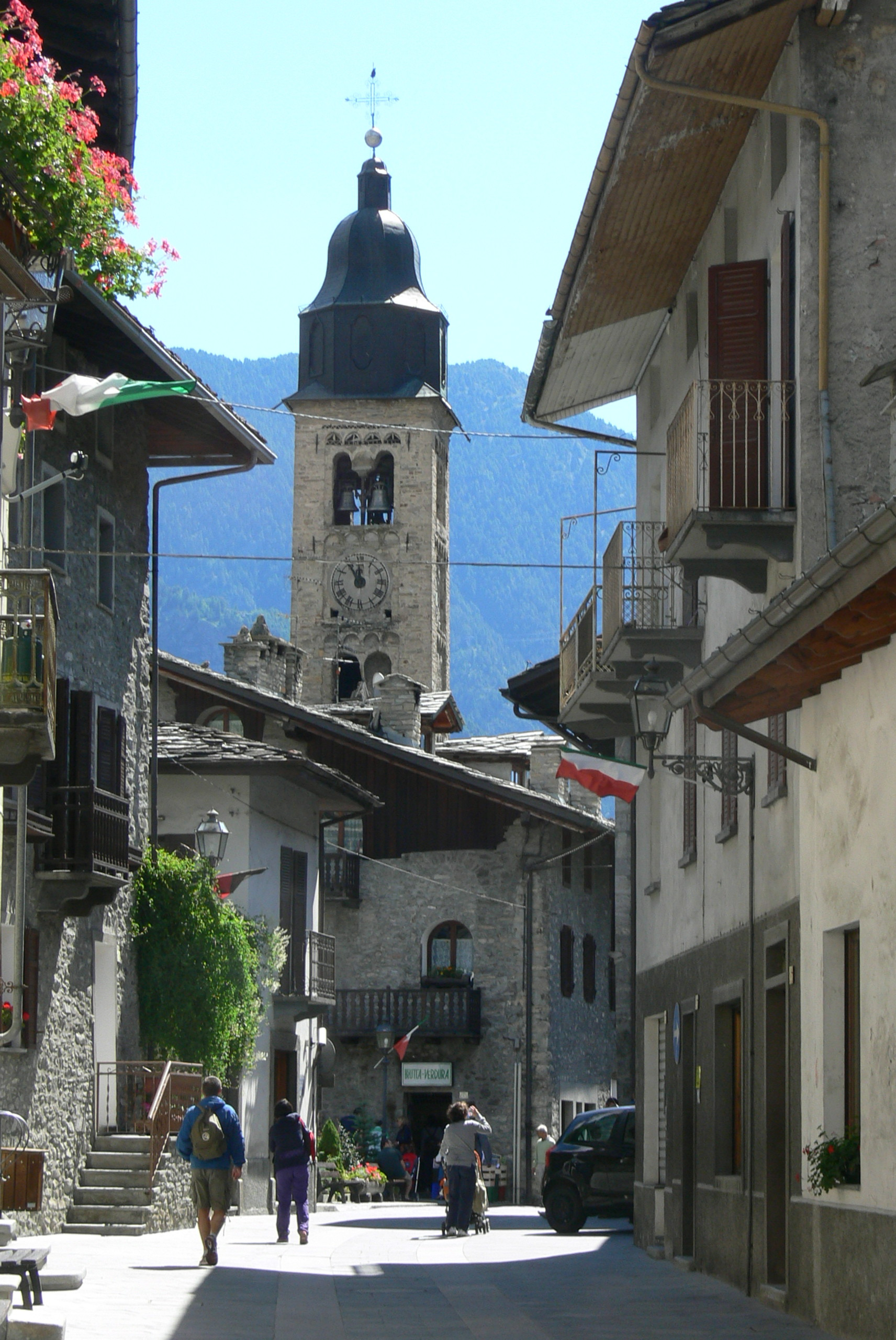 Morgex ( Aosta Valley ). Main street with church tower.